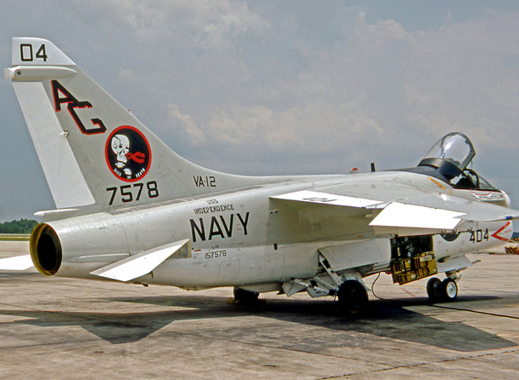 LTV A-7E Corsair II 157578 AG-404 of VA-12 Squadron at Cecil Field NAS In 1976